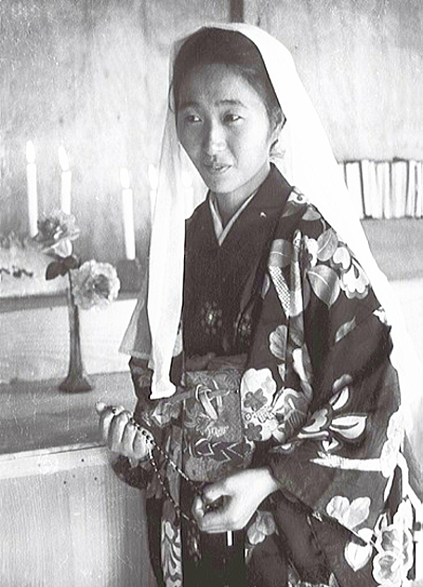 Servant of God Satoko Kitahara